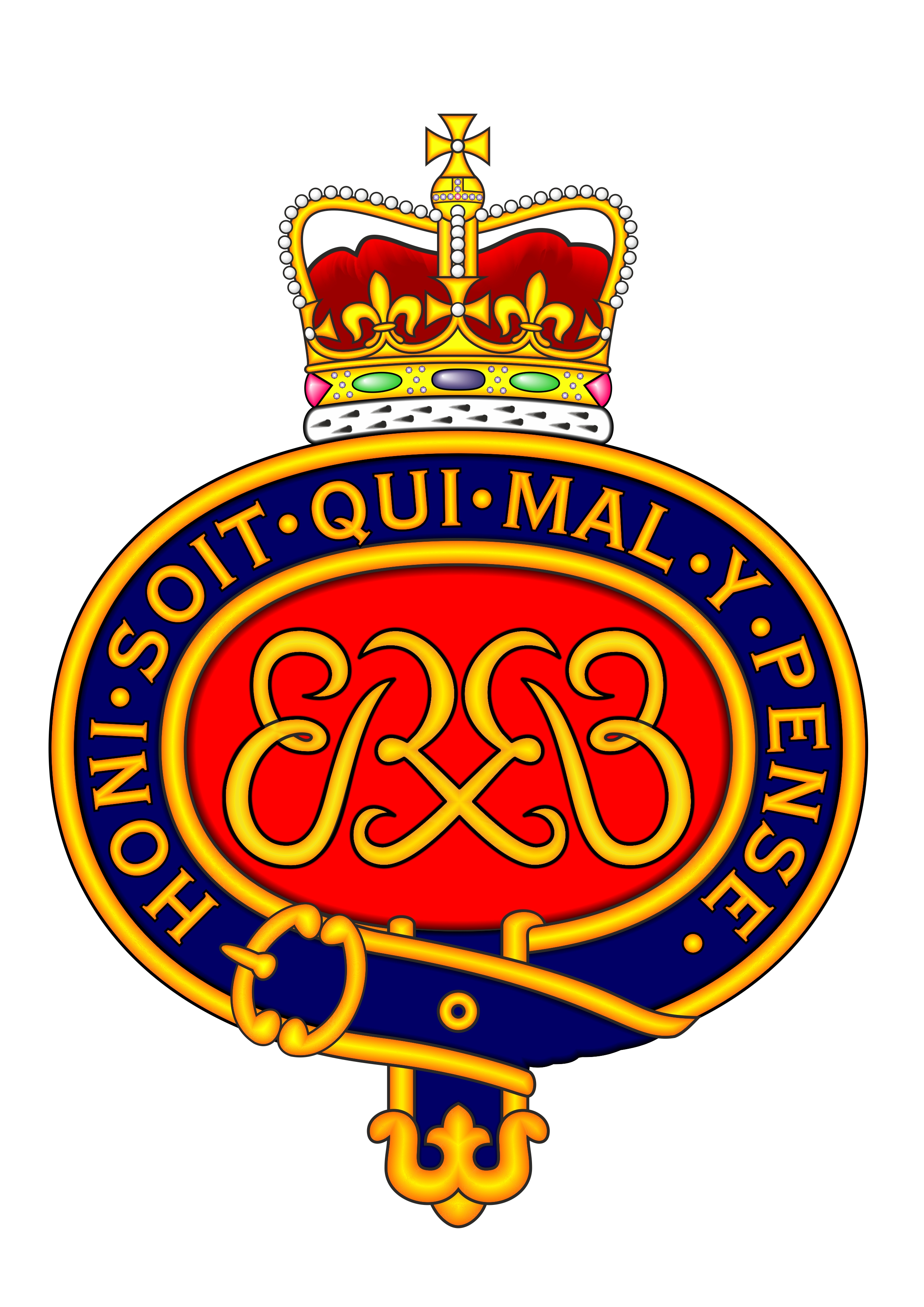 The Royal Cypher of the Grenadier Guards. Honi Soit Qui Mal Y Pense 'Shame on him who thinks evil of it')